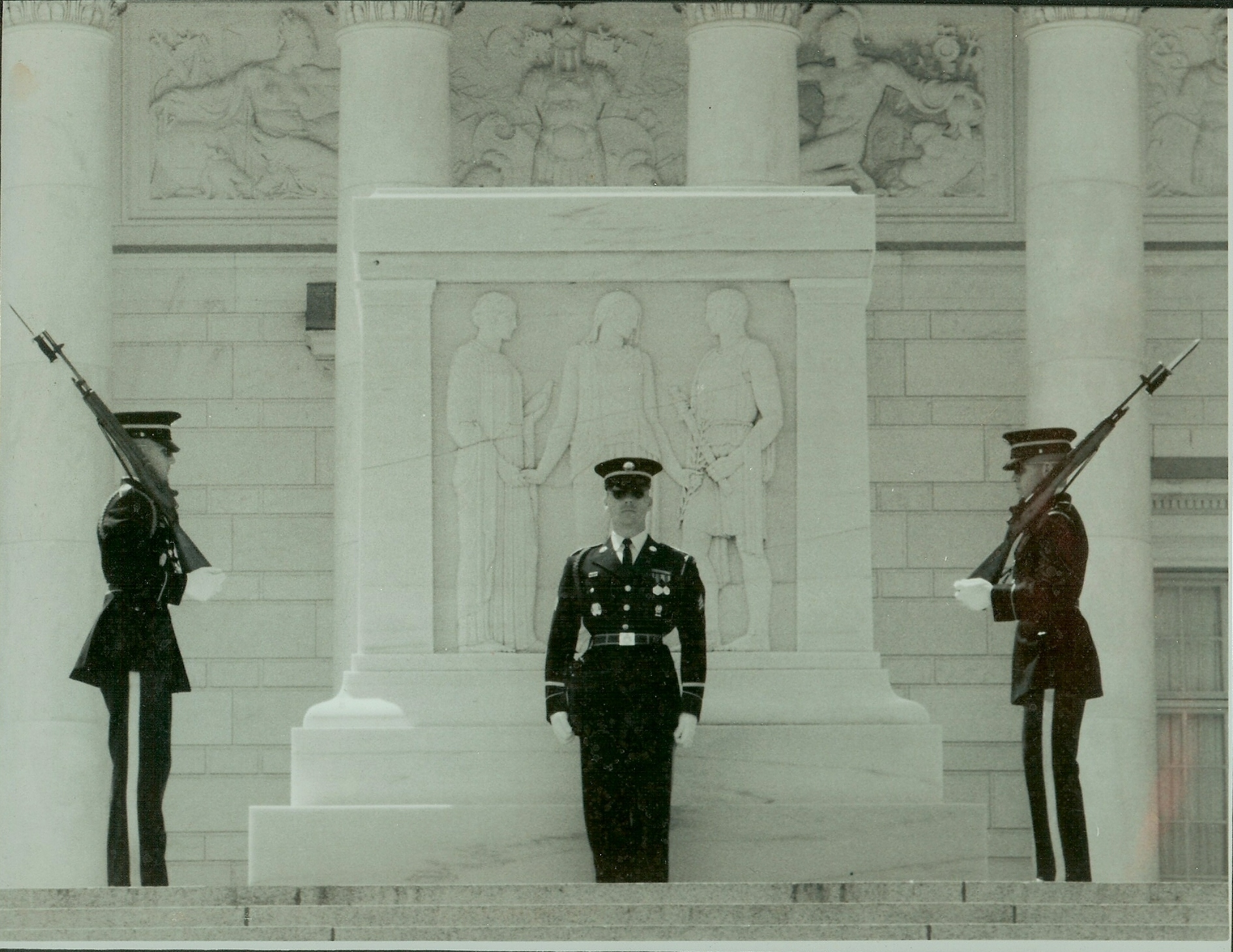 Tomb of the Unknowns, Arlington National Cemetery. This is my picture as I am the sentinal on the left.